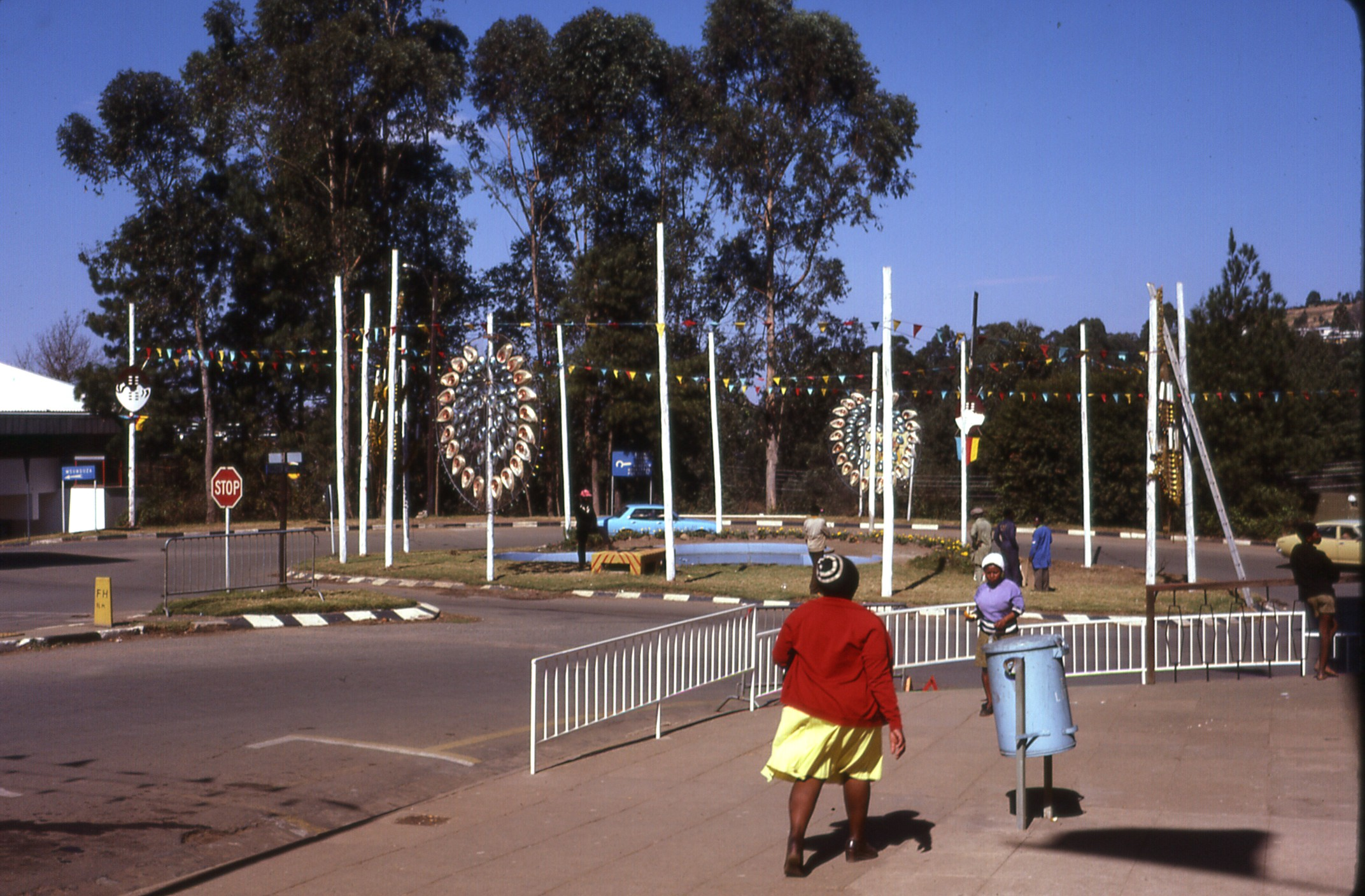 Street scene, Mbabane, Swaziland